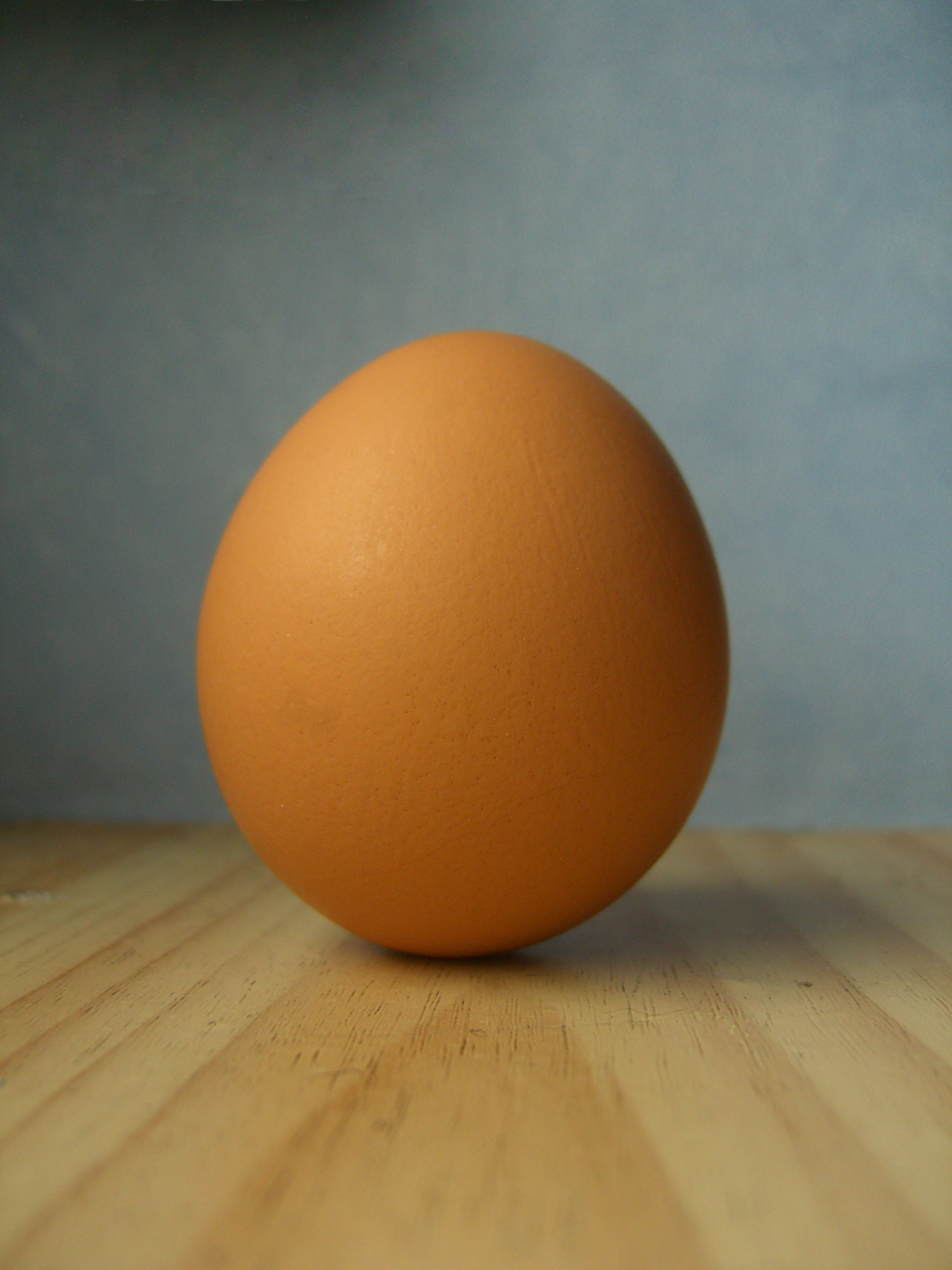 Egg of Columbus. I ate it 10 minutes later.